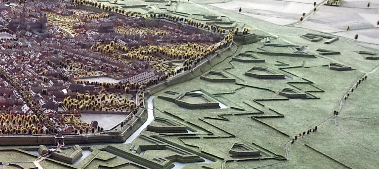 Detail of the copy of the French Maquette of Maastricht on display in Centre Céramique, Maastricht, the Netherlands. The copy was made in 1974-1982, based on the mid-18th-century scale model made for King Louis XV of France. This section shows the western city wall near Lindenkruispoort gate with several bastions, hornworks and ravelins.